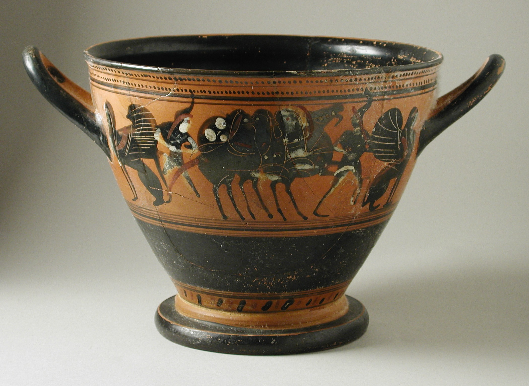 Greece, Athens, 525-475 B.C. Furnishings; Serviceware Pottery, painted and incised Height: 7 1/4 in. (18.42 cm); Width: 12 1/6 in. (30.90 cm) Gift of Mrs. Howard Ahmanson (M.74.134) Greek, Roman and Etruscan Art